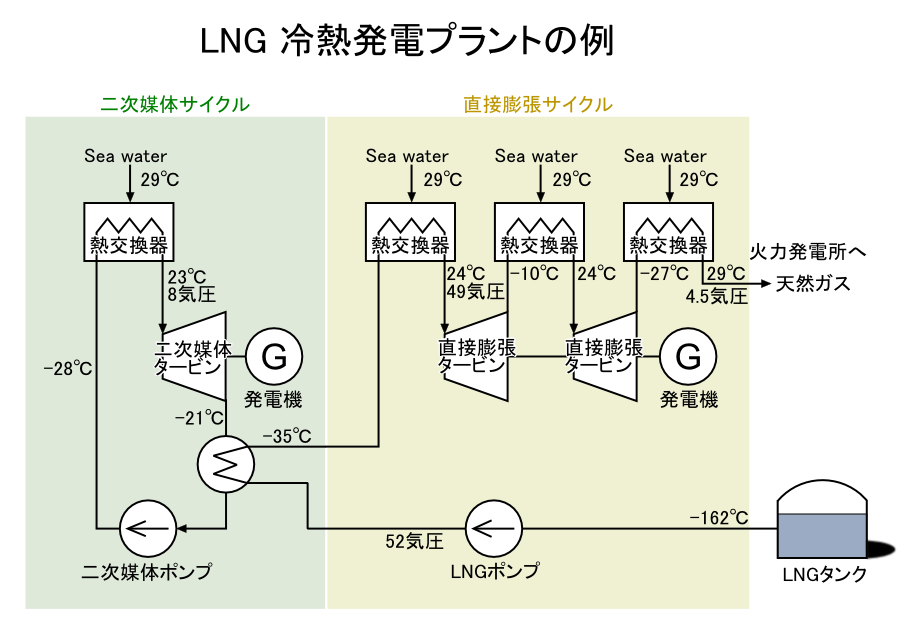 Model of LNG cold power generation plant with Japanese tags